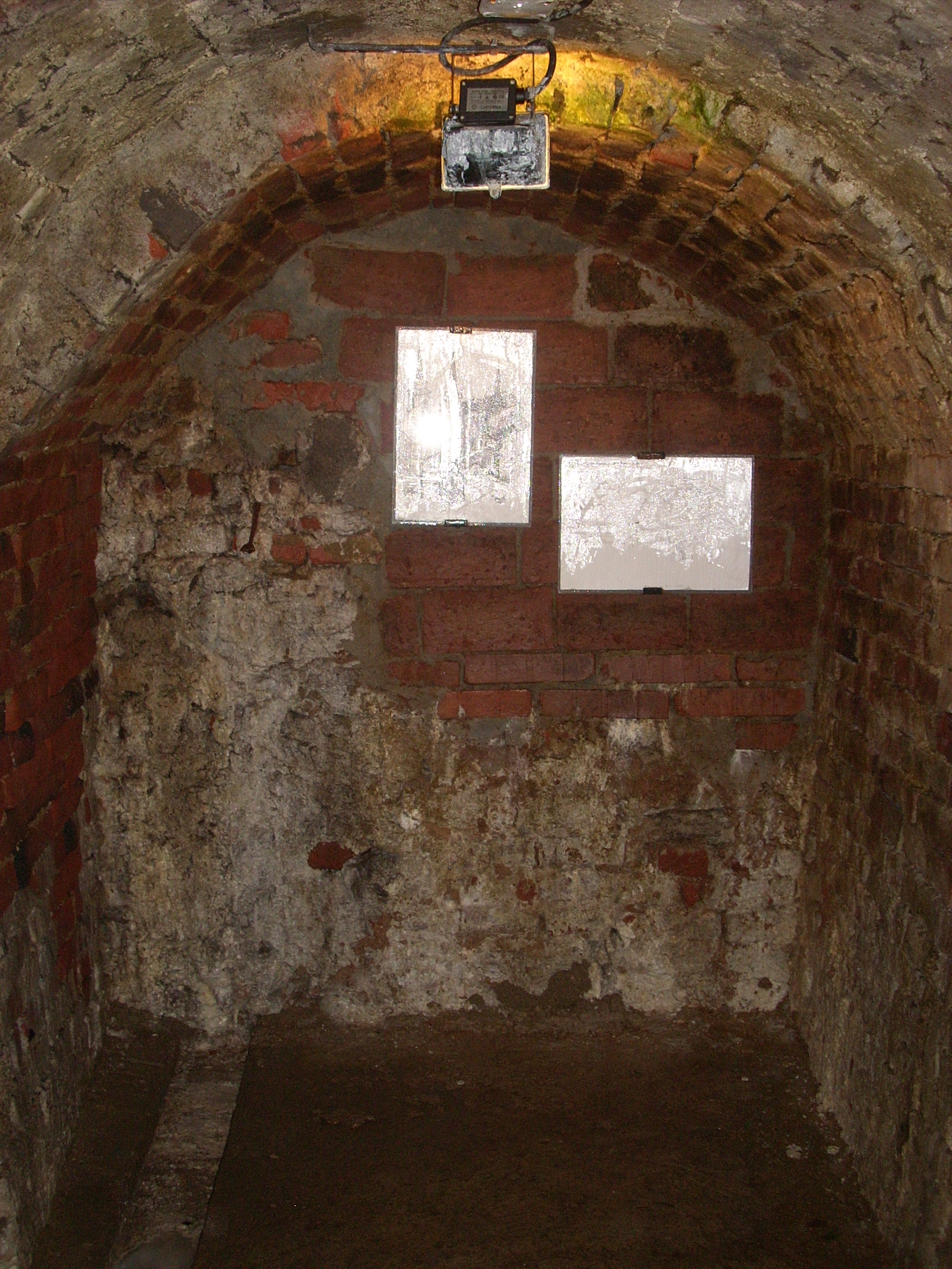 Foundation-stone of Church of Saint Ignatius of Loyola in Jihlava´s underground